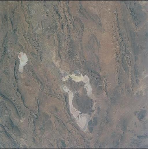 Lake Bakhtegan and Lake Tashk, Iran. Photo taken by crew of Space Shuttle Discovery, mission STS-92, Oct. 22, 2000.